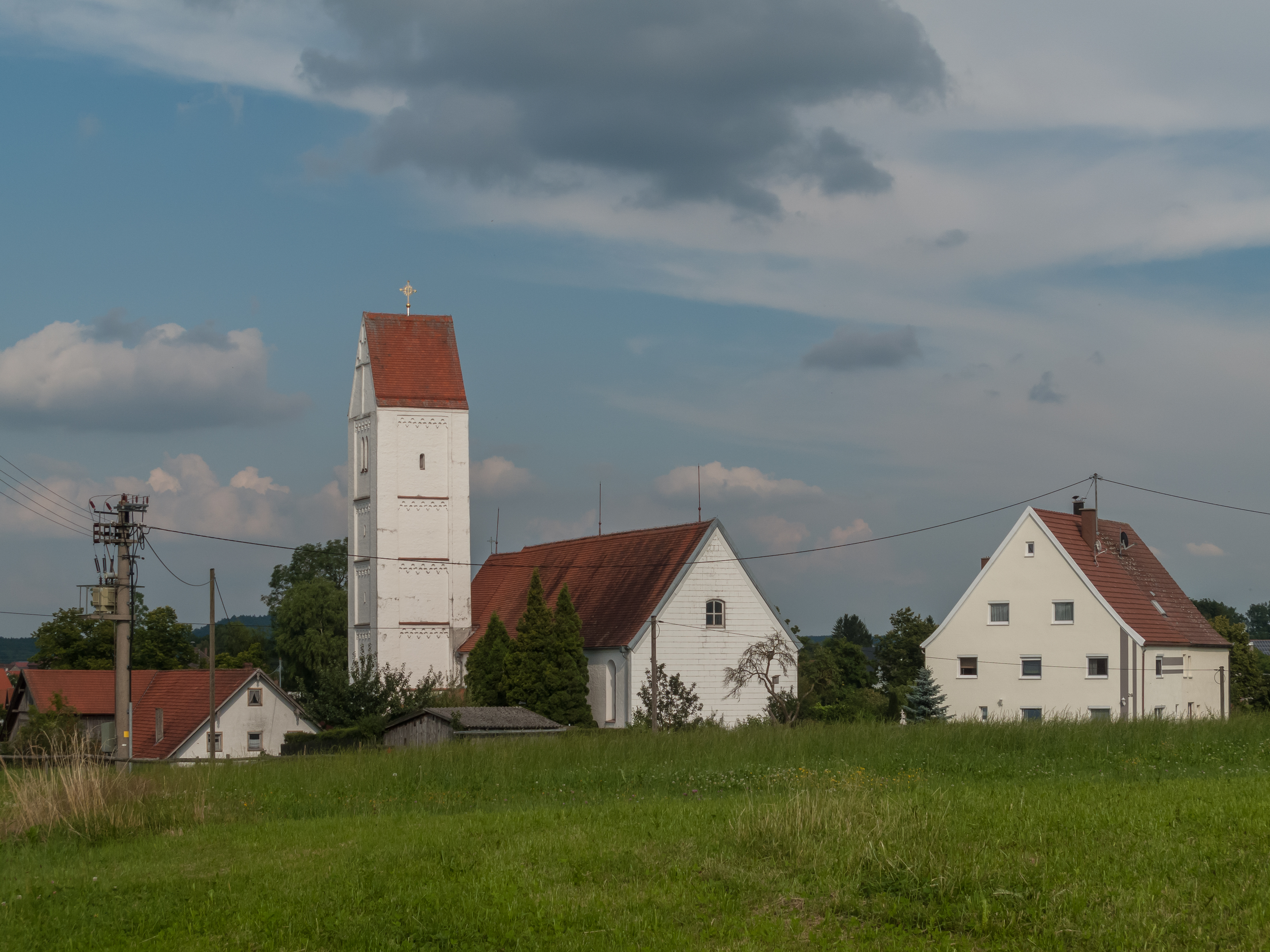 Attenhausen, church (katholische Pfarrkirche Sankt Andreas) and monumental living houseThis is a photograph of an architectural monument.